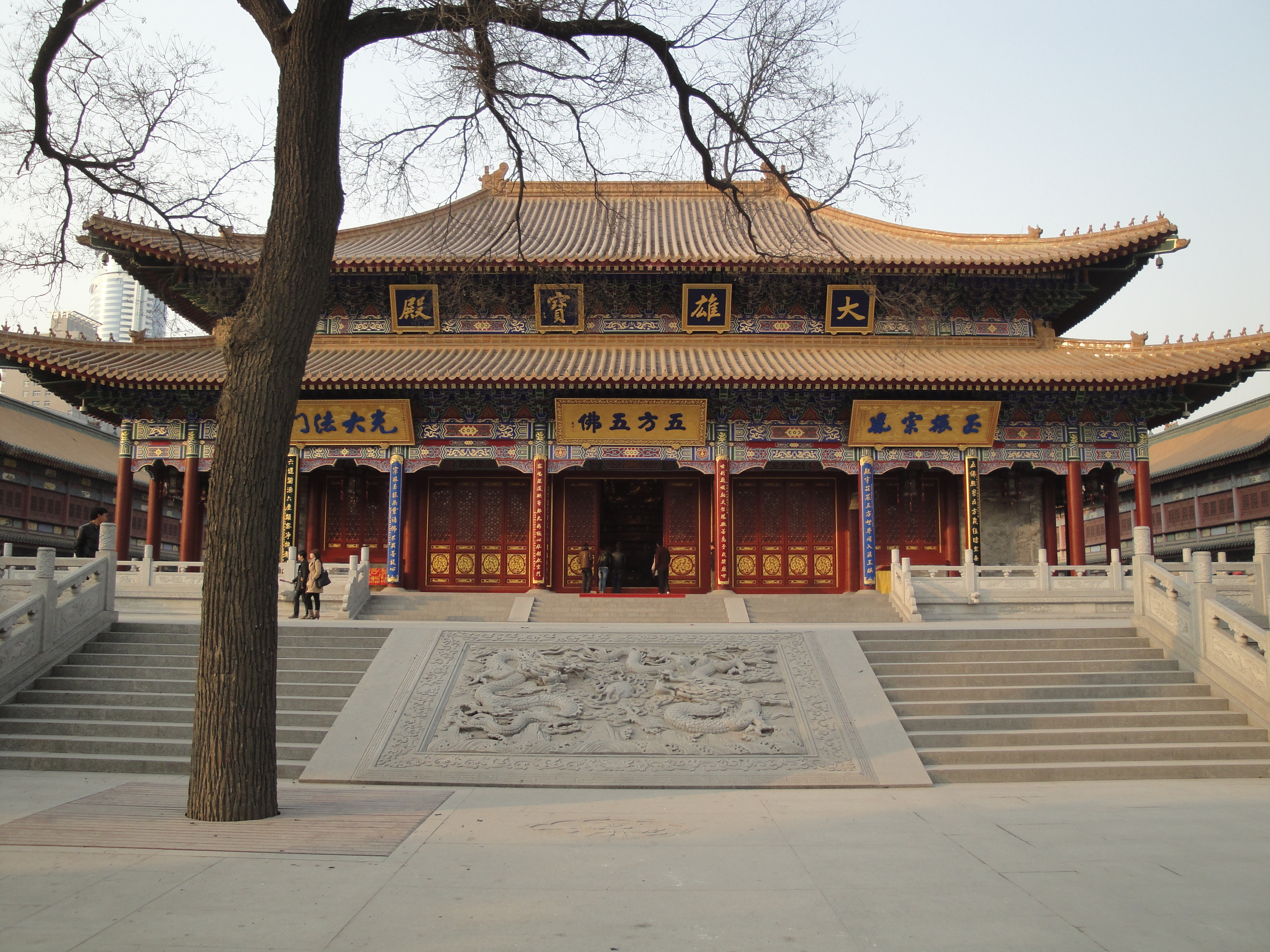 DaXingShanSi temple,XiaoZhai,xi'an China